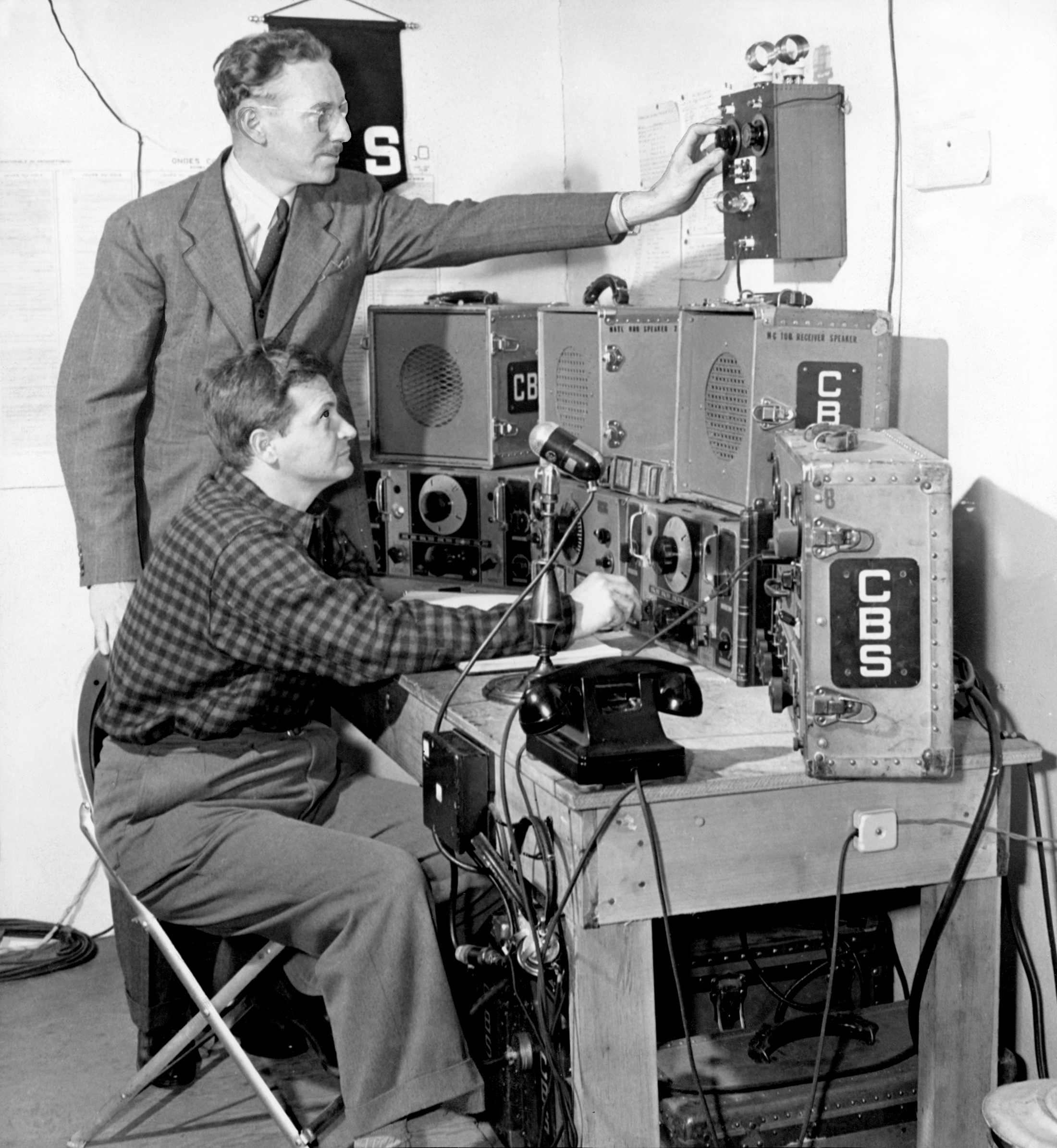 Promotional photograph of two staff at a CBS listening station, recording propaganda broadcasts from Europe